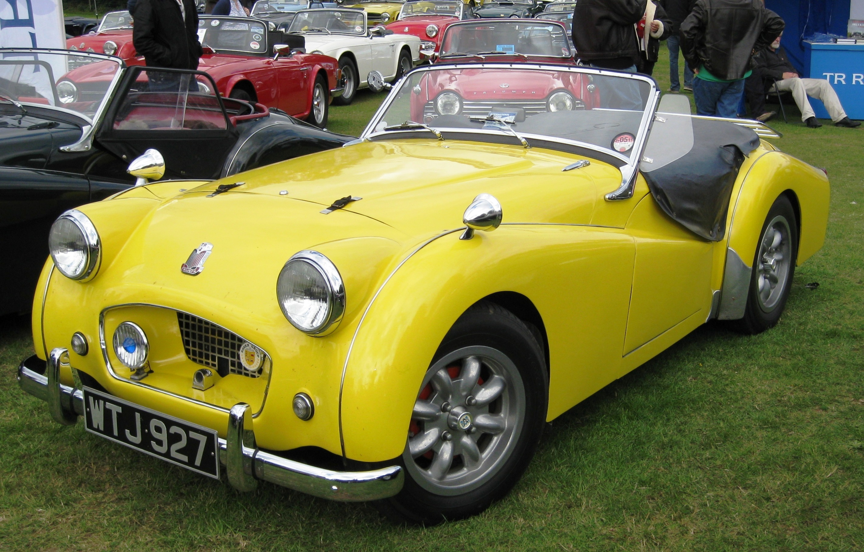 Triumph TR2 spotted in a sea of Triumph TRs at Knebworth Classic Car show.